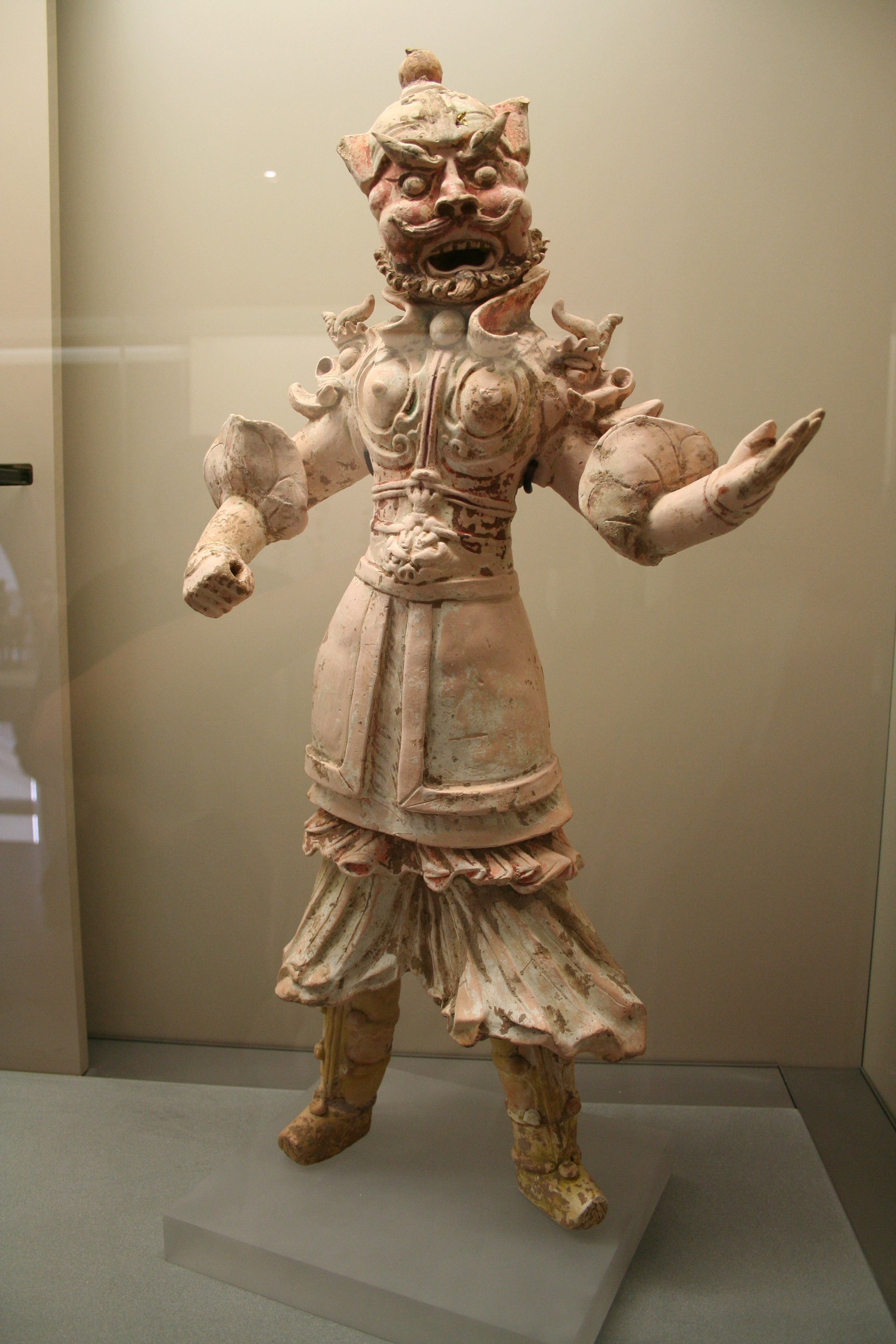 Warrior (Wushi yong). Terra Cotta with traces of polychromy and gold. Gansu Province. Tang Dynasty (618 – 907). Cernuschi Museum, Paris, France.